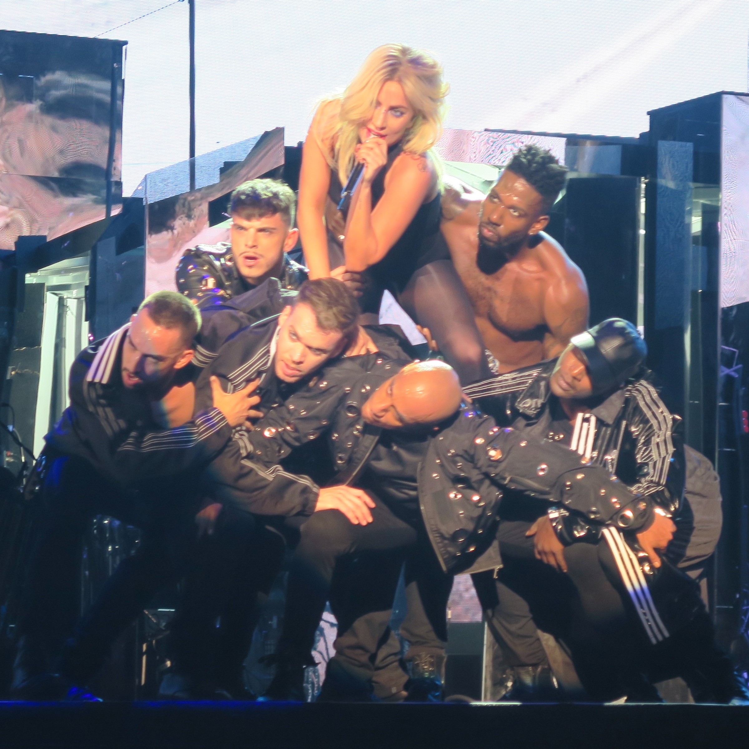 Lady Gaga performing her song "John Wayne", during Coachella festival in 2017